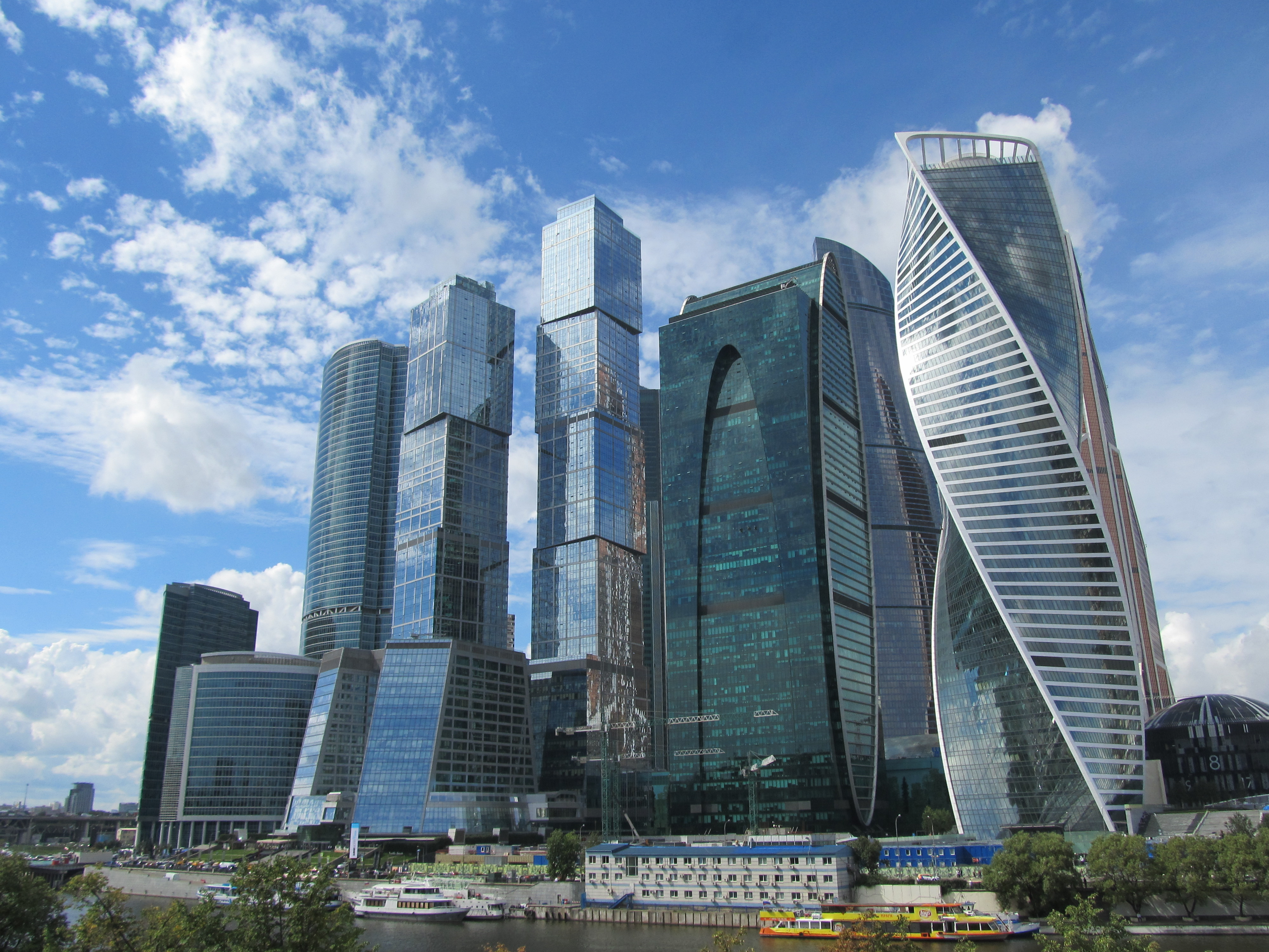 Moscow International Business Center, view from the observation deck of the Bagration bridge